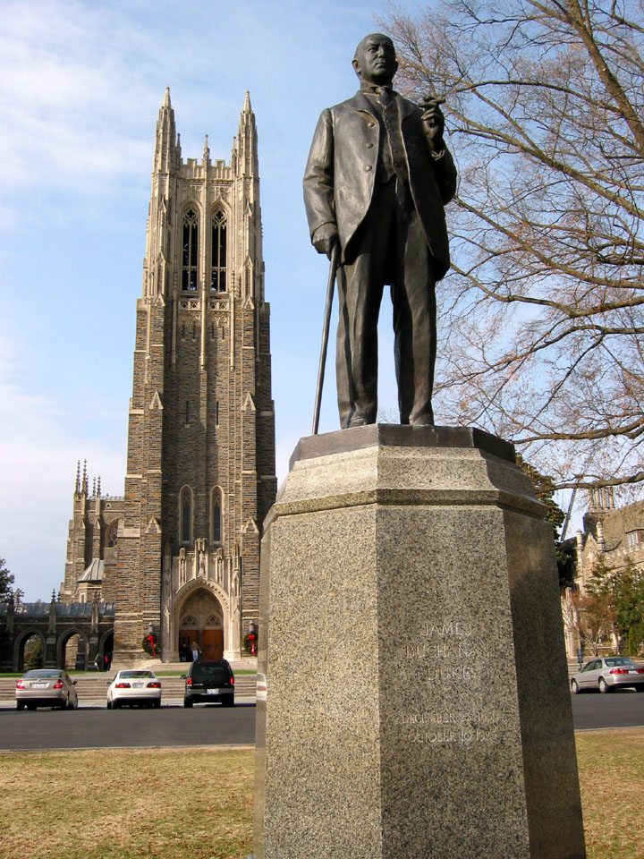 Statue of James B. Duke in Duke University. James B. Duke was an American tobacco giant. Due to his donation the original Trinity College changed its name to Duke University in 1924. The statue is standing in front of Duke Chapel, one of the first few buildings in the campus.